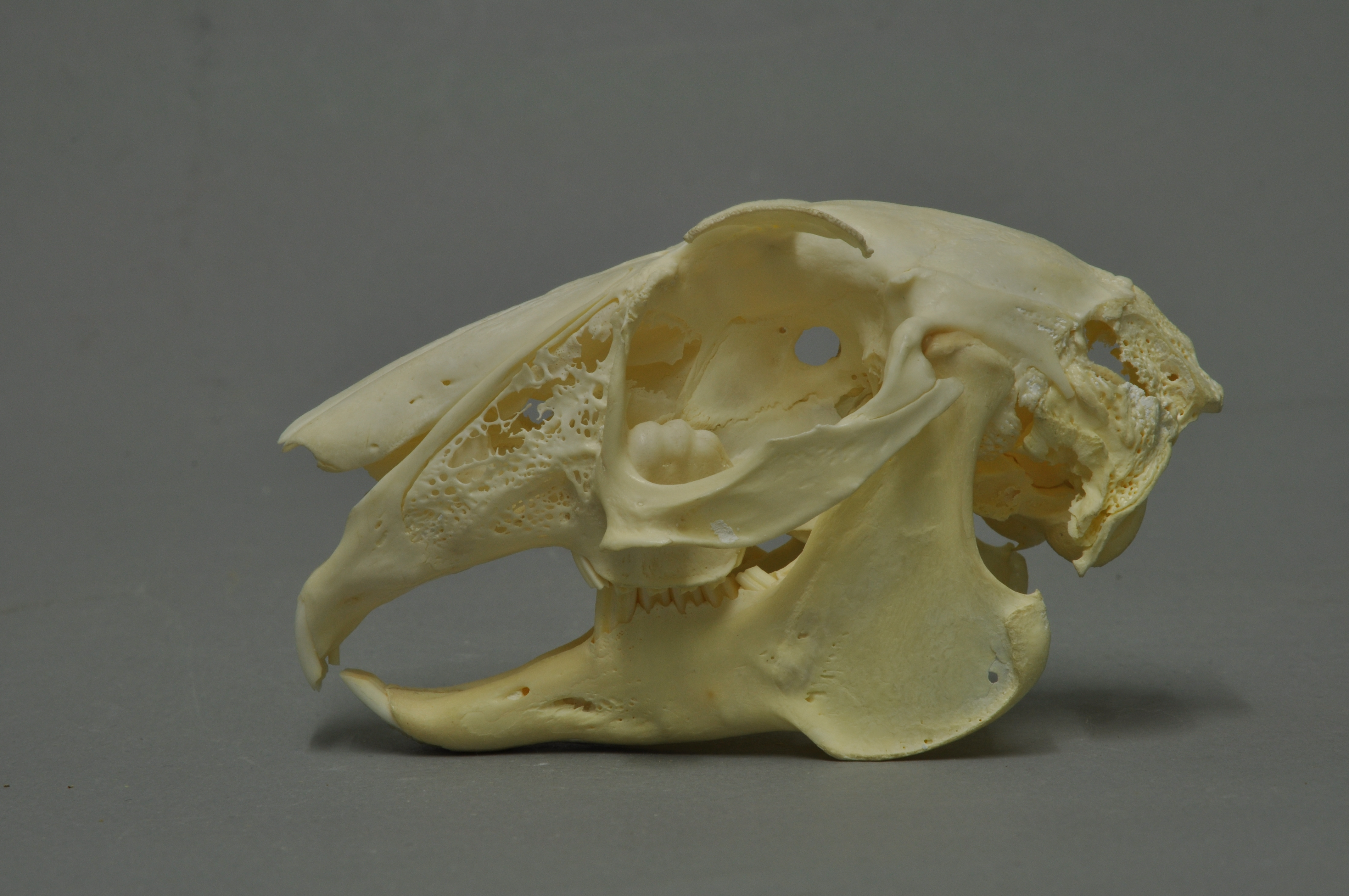 European hare Lepus europaeus , skull, Coll. Museum Wiesbaden